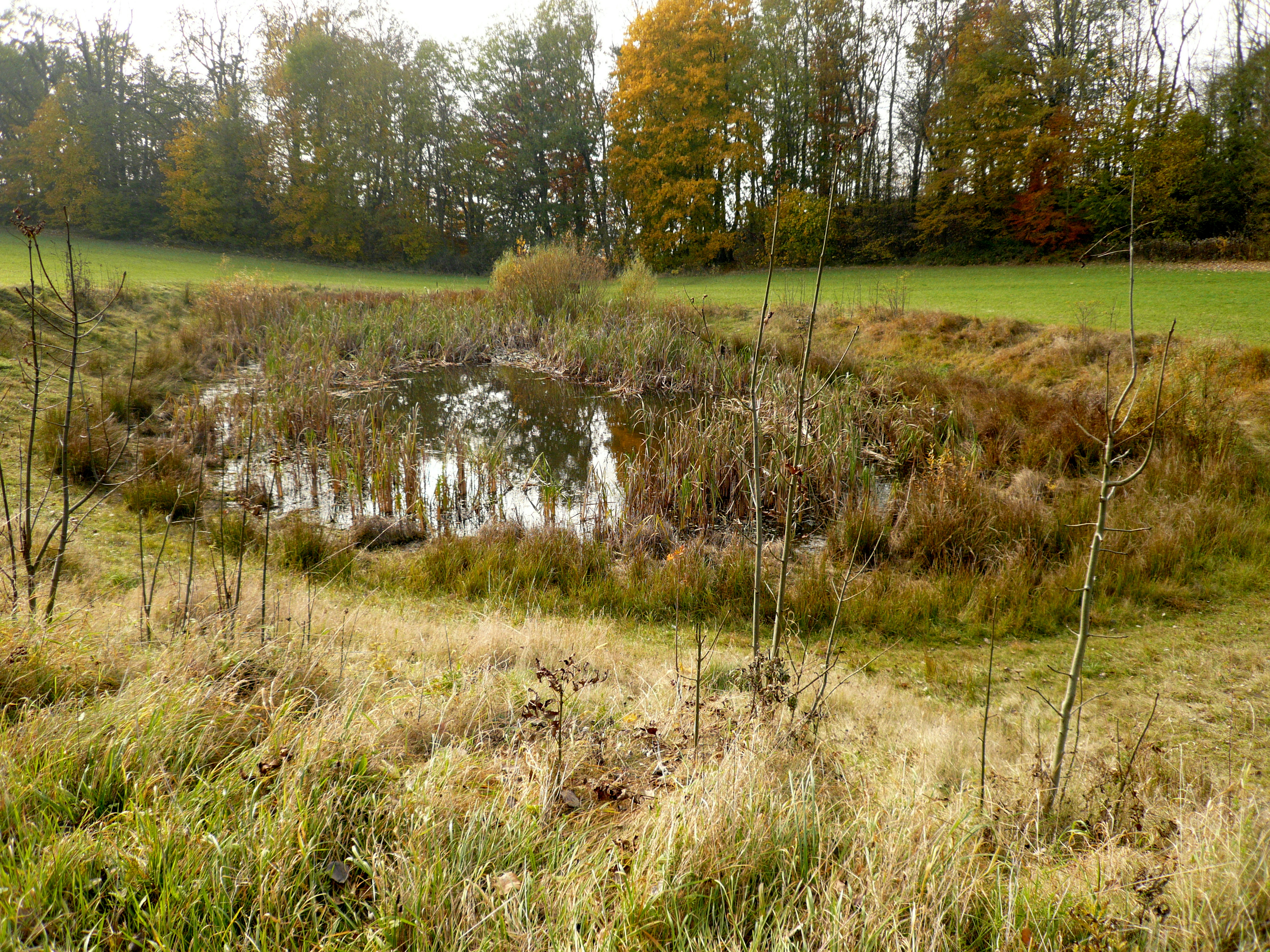 Molach, remainer of a prehistoric vulcano on Schwaebische Alb